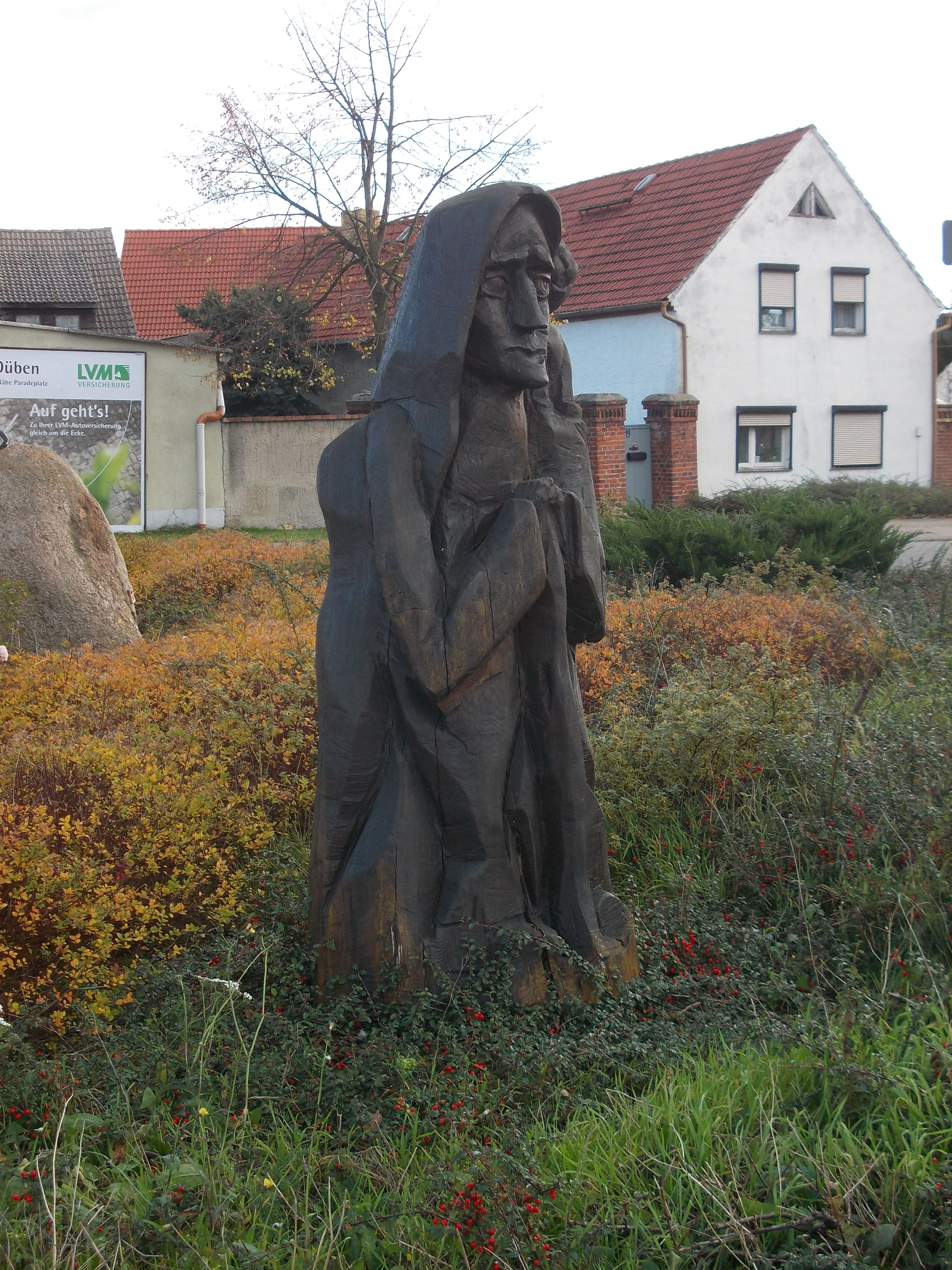 Statue at the witch stone in Görschlitz (Laussig, Nordsachsen district, Saxony), memorial to the victims of the witch-hunts between 1560 and 1640.